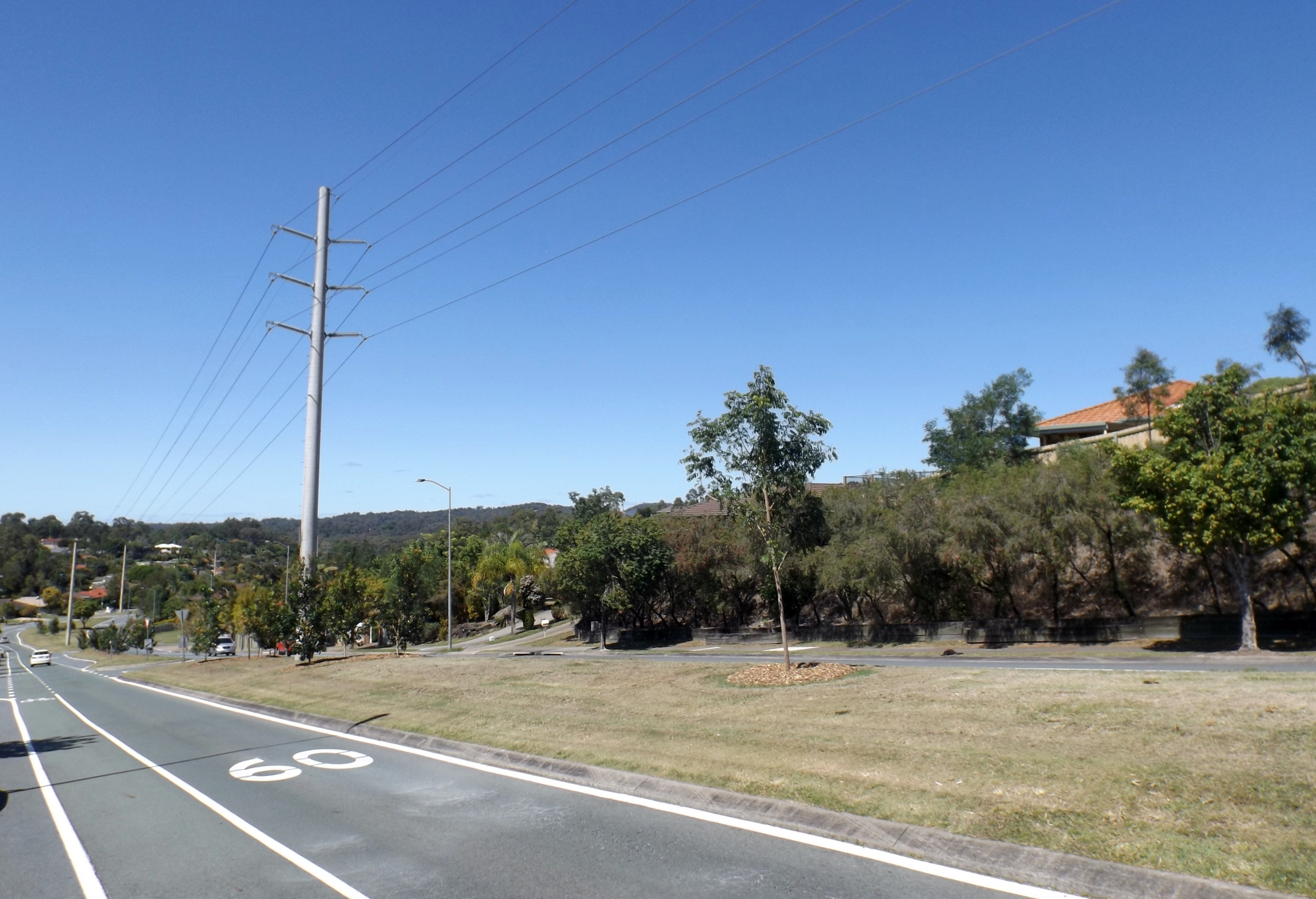 Photo of Pacific Pines Boulevard at Pacific Pines, Gold Coast City, Queensland, Australia.